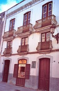 The house where Domínguez was born, in San Cristóbal de La Laguna, Spain.